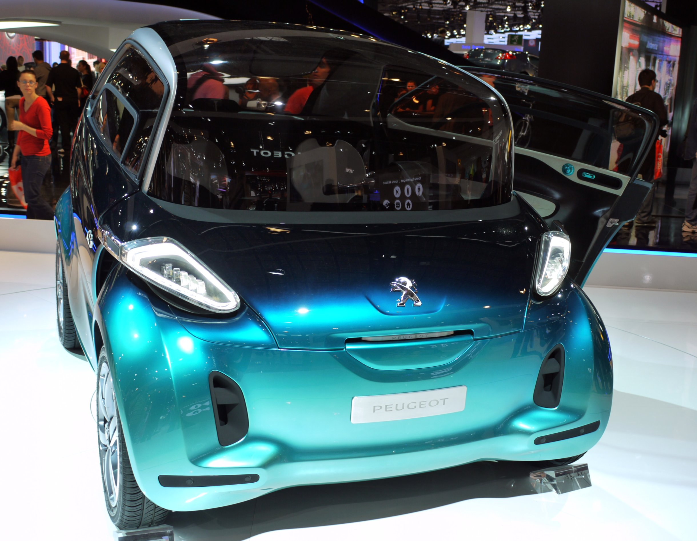 Peugeot BB1 concept. "Its father is a scooter. Its mother is a car. So its no wonder Peugeot’s BB1 is so extraordinary. The zero emission, electric-powered BB1 concept car was unveiled at the Frankfurt Motor Show. Designed as a solution for future mobility, it reinvents every aspect of the automobile – from design and style to connectivity and technology. With a range of around 120 Km (75 miles), the BB1 is incredibly compact - just 2.5metres long – yet still seats four people. The driving position has been completely reworked into a much more upright position – and no foot pedals. And not only is the BB1 fully electric, new generation solar panels also help to power the vehicle. DESIGN Designers drew on the Peugeot heritage in cars, bikes and motorbikes. Yet they also looked to the future, and moved away from current car design. As such, they created a unique driving position and extended wheel arches. The BB1 also features a double bubble roof, similar to the RCZ, and large glazed surface areas. CONNECTIVITY Interactive technologies include rear-view cameras – meaning no need for mirrors – and an in-built audio system. This acts as a ‘smart phone’, providing among other things, telephone, navigation, Internet access, radio and MP3. ENVIRONMENT Drawing inspiration from the quad bike, the Peugeot BB1 is fitted with two electric motors mounted in the rear wheels, designed in association with Michelin. Driveability is key, with excellent in-gear acceleration of 30Km/h to 60 Km/h (19 - 37mph) in 4 seconds. The BB1 is powered by two lithium-ion battery packs with a comfortable range of 120 Km (75 miles)."